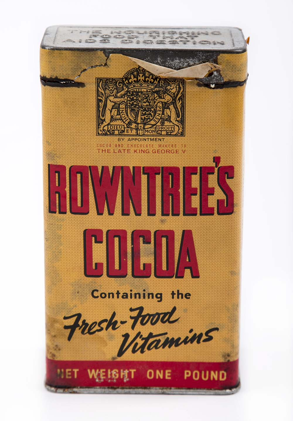 Rowntree's Cocoa Tin, with yellow, black and red label. Length: 97 mm Width: 57 mm Depth: 174 mm Manufactured by Rowntree & Co Ltd, York, Yorkshire, England, UK, 1914 - 18. Copyright Statement: (Copyright) We're happy for you to share these digital images within the spirit of The Commons. Please cite 'Tyne & Wear Archives & Museums' when reusing. Certain restrictions on high quality reproductions and commercial use of the original physical version apply though; if you're unsure please